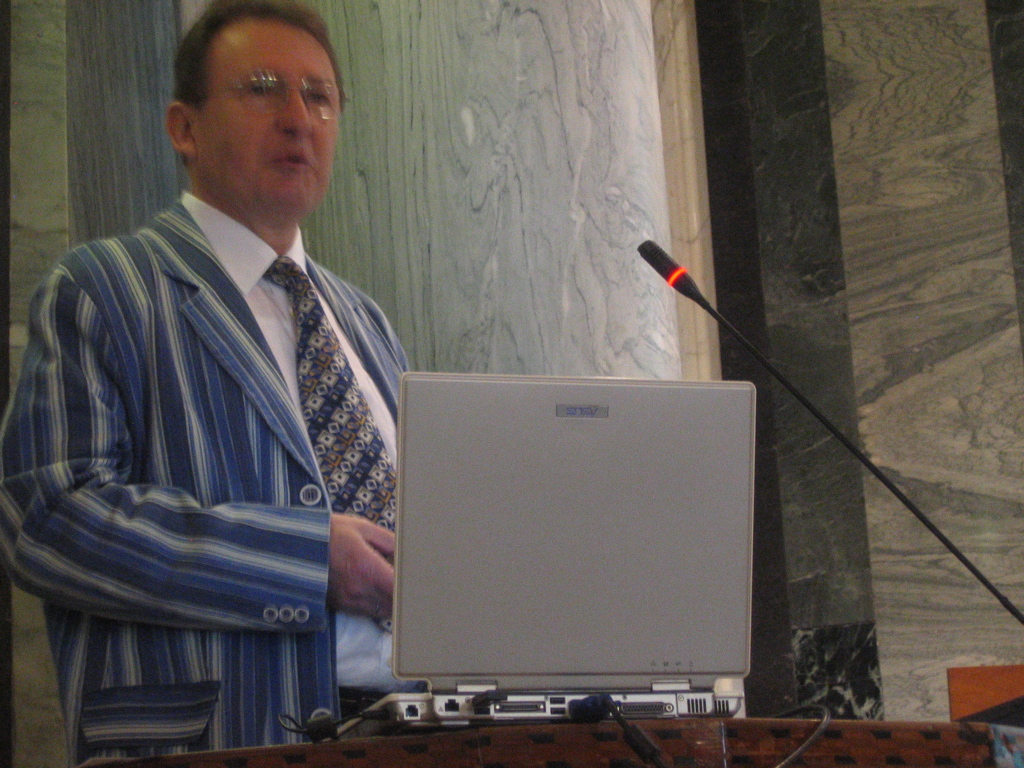 Photos from EuroGP/EvoStar 2008 in Naples, Italy, taken by myself and Tyler Hutchison. These are uncleaned and unedited; folks from the conference are welcome to use them as they wish. Wednesday morning: Introductions and plenary by Hans-Paul Schwefel. Hans-Paul